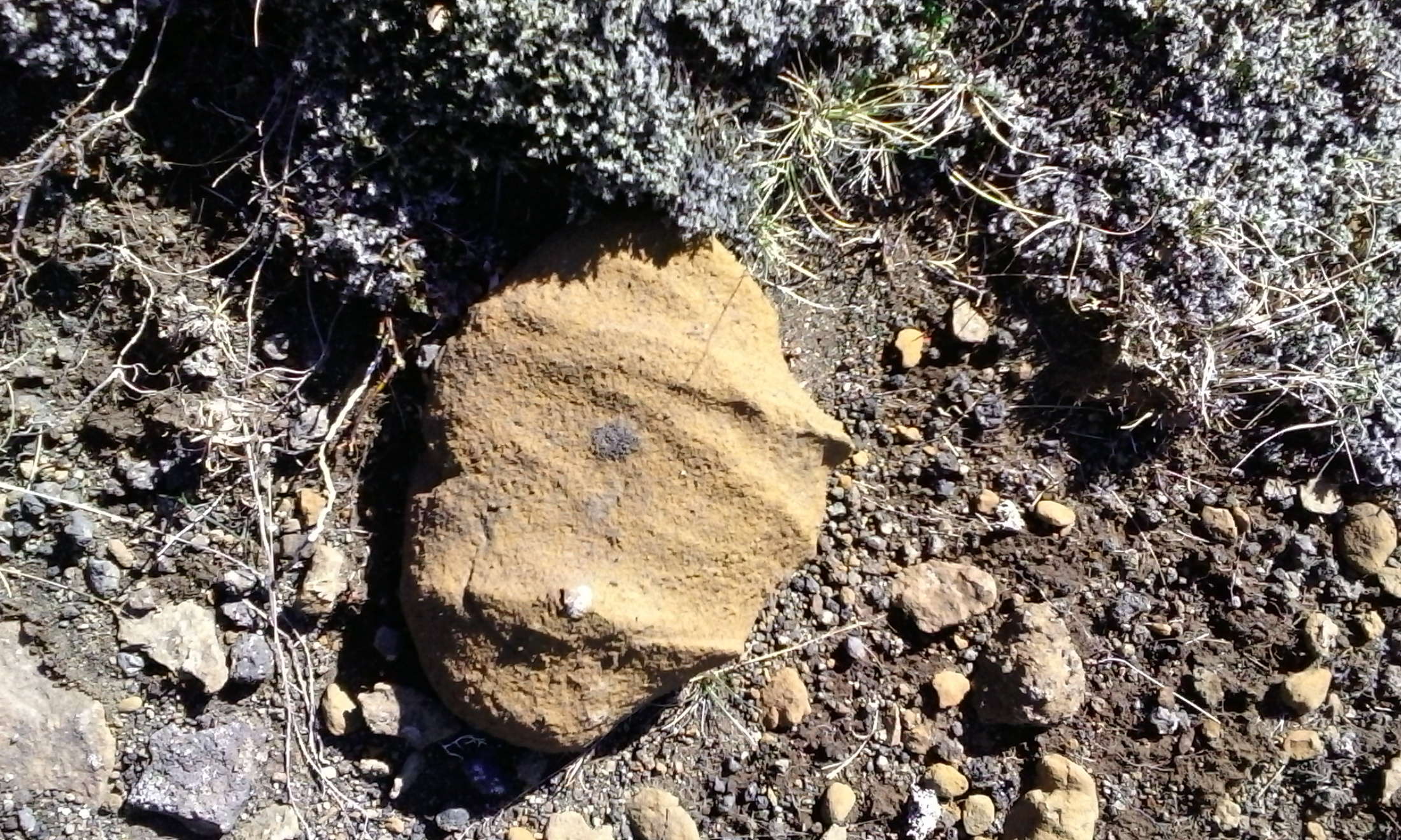 Litla Sandfell, Bláfjöll, Iceland